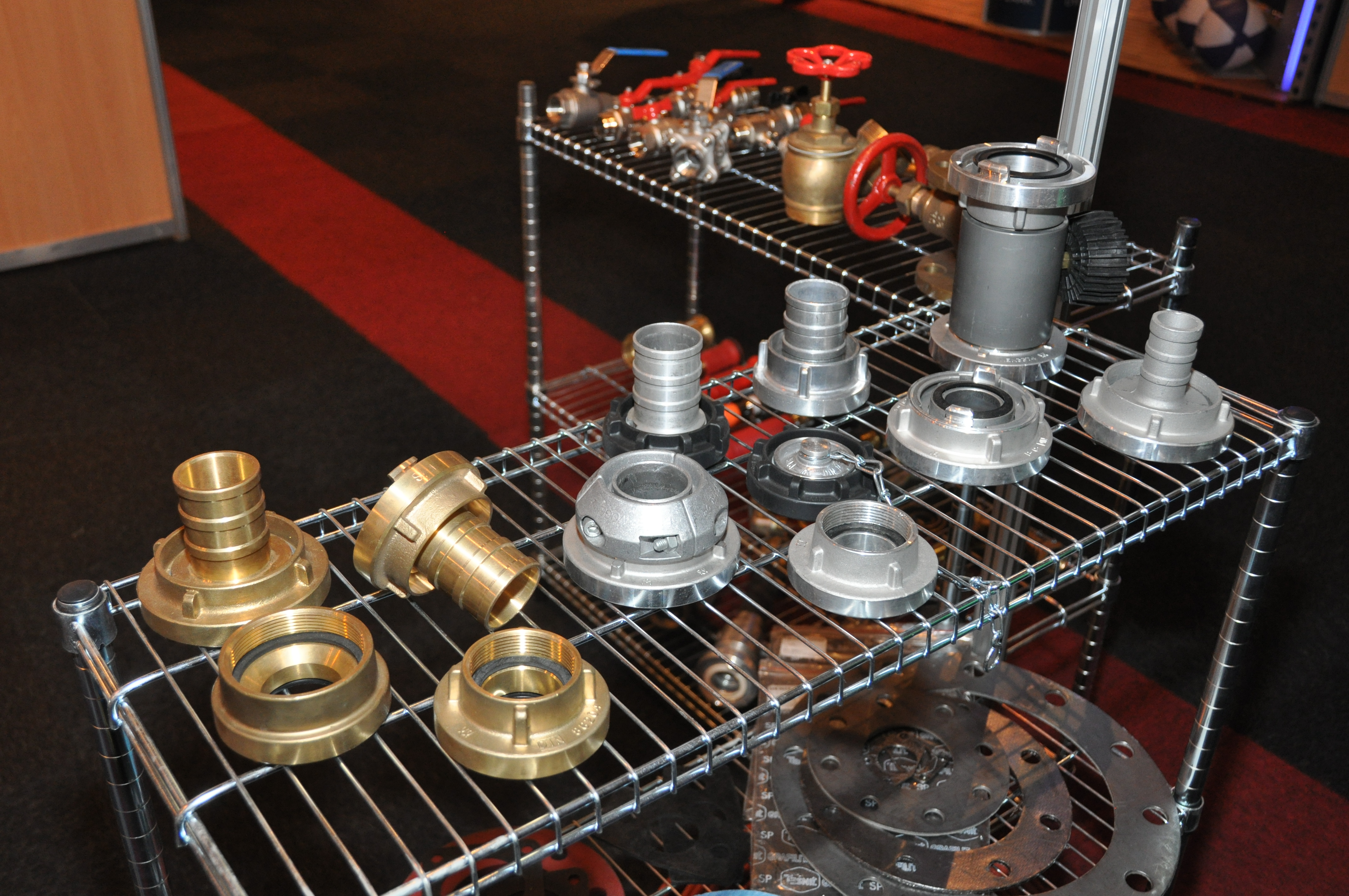 Construction & shipping industry 2010